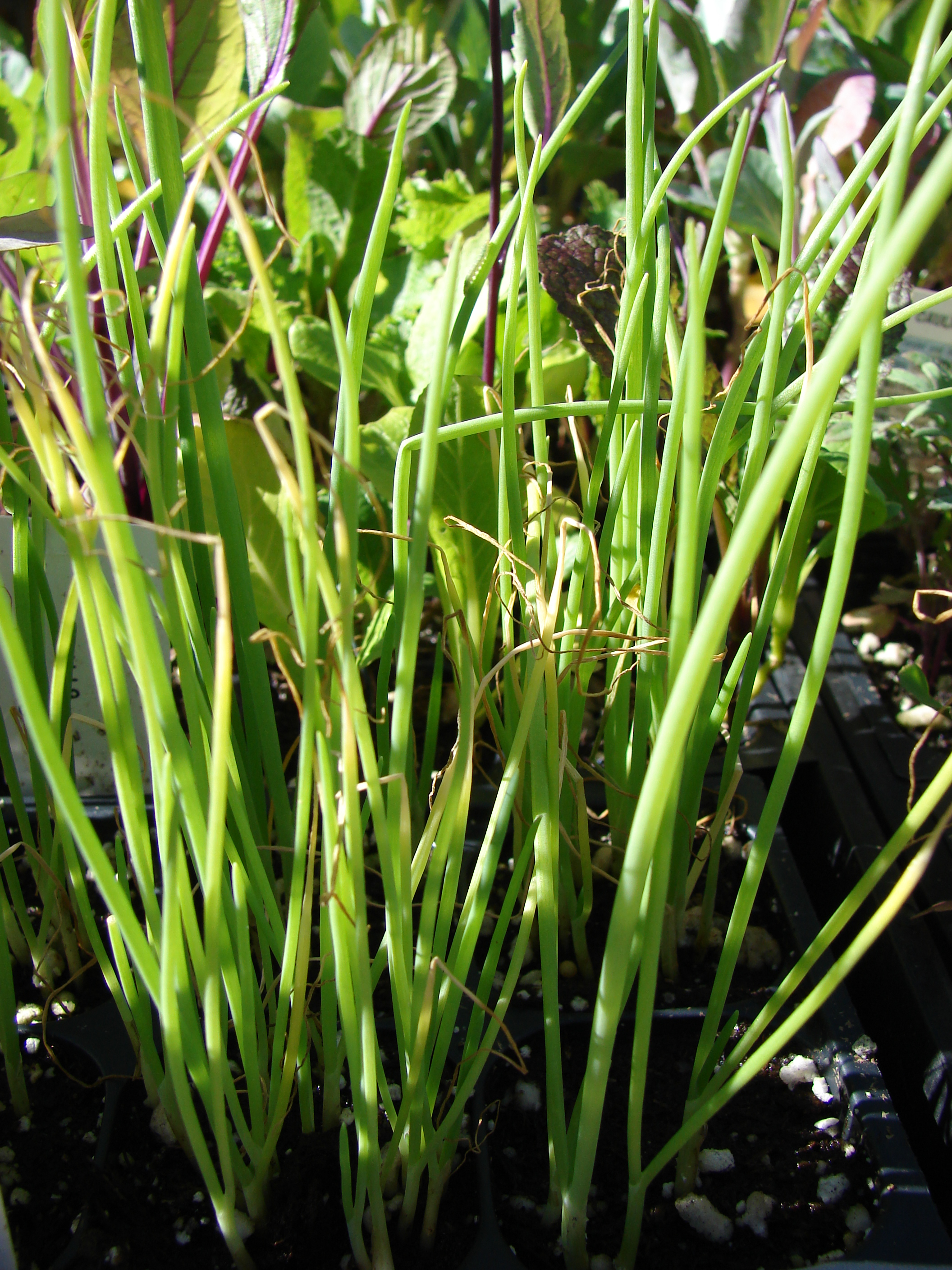 Allium cepa (habit). Location: Maui, Lowes Garden Center Kahului